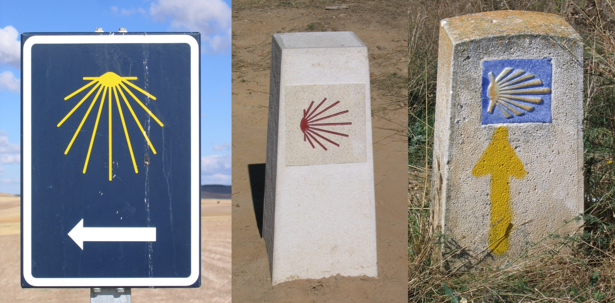 Symbols along the "Camino frances" in the North of Spain